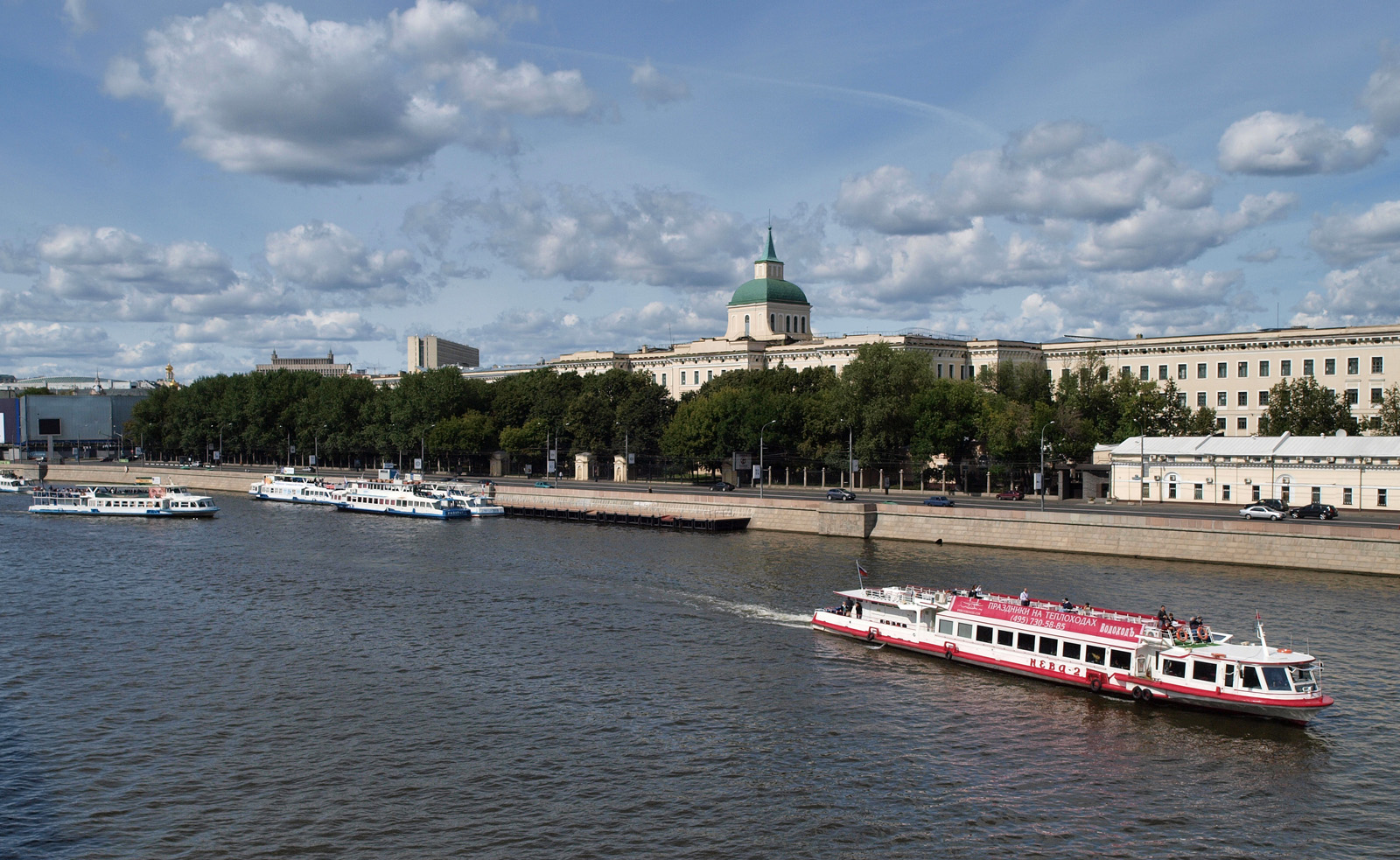 The Orphanage building, Moscow